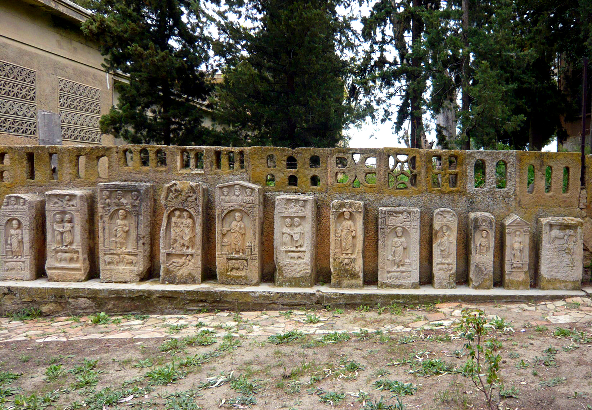 Roman grave steles. Timgad, Batna, Algeria